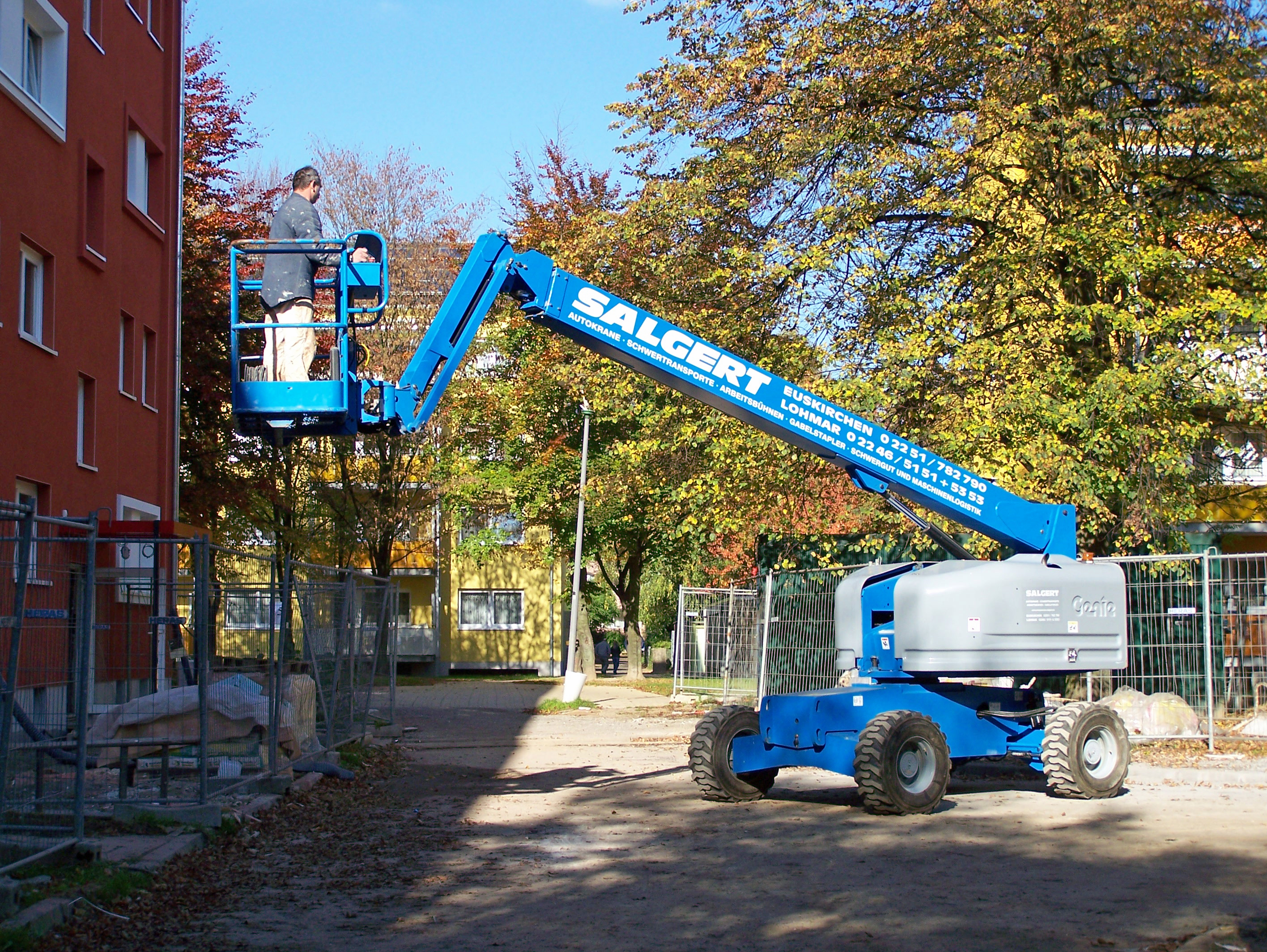 A blue, mobile lift stage.